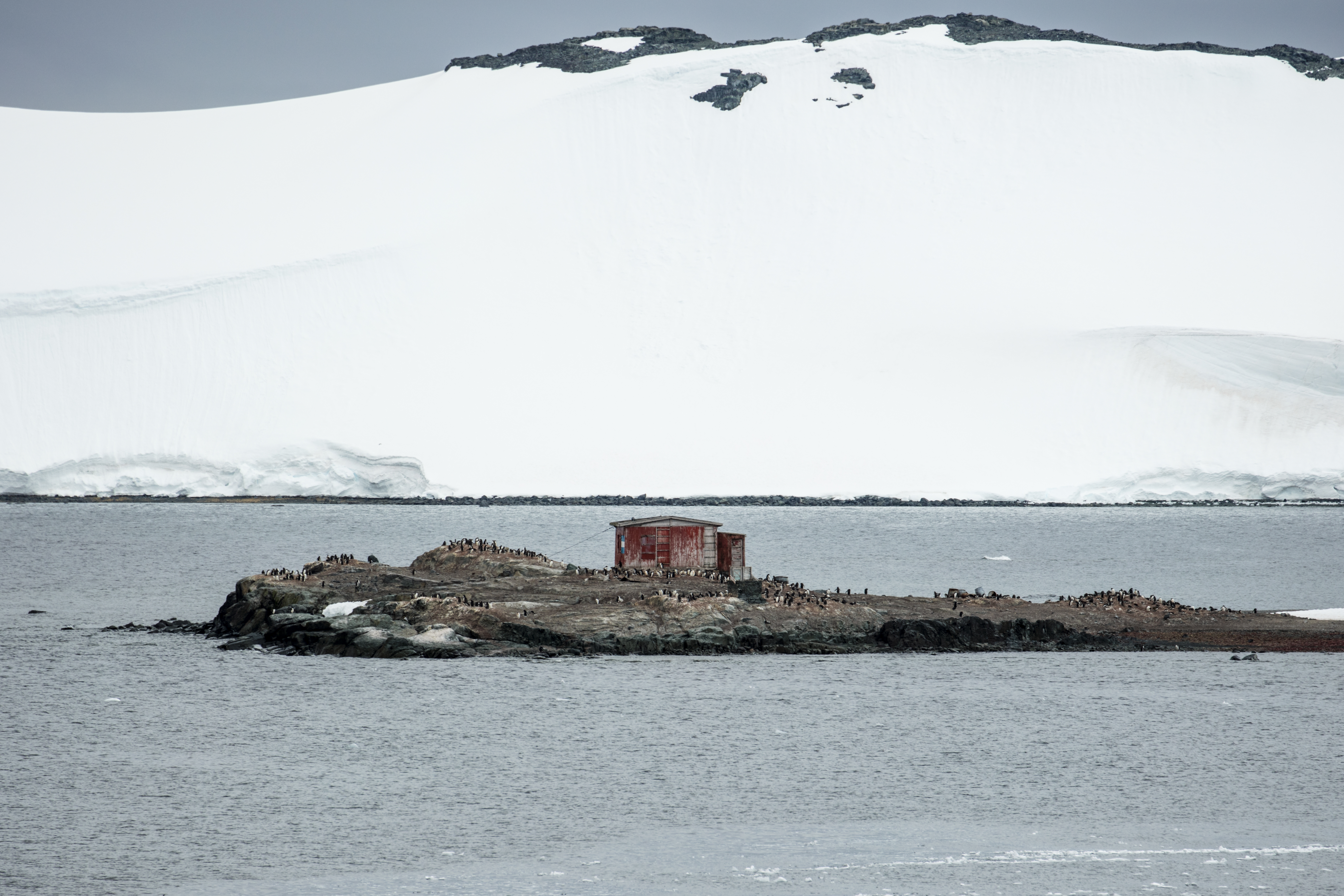 Argentine Refugio Naval (built 10 December 1954) on D'Hainaut Island, Mikkelsen Harbour, Trinity Island